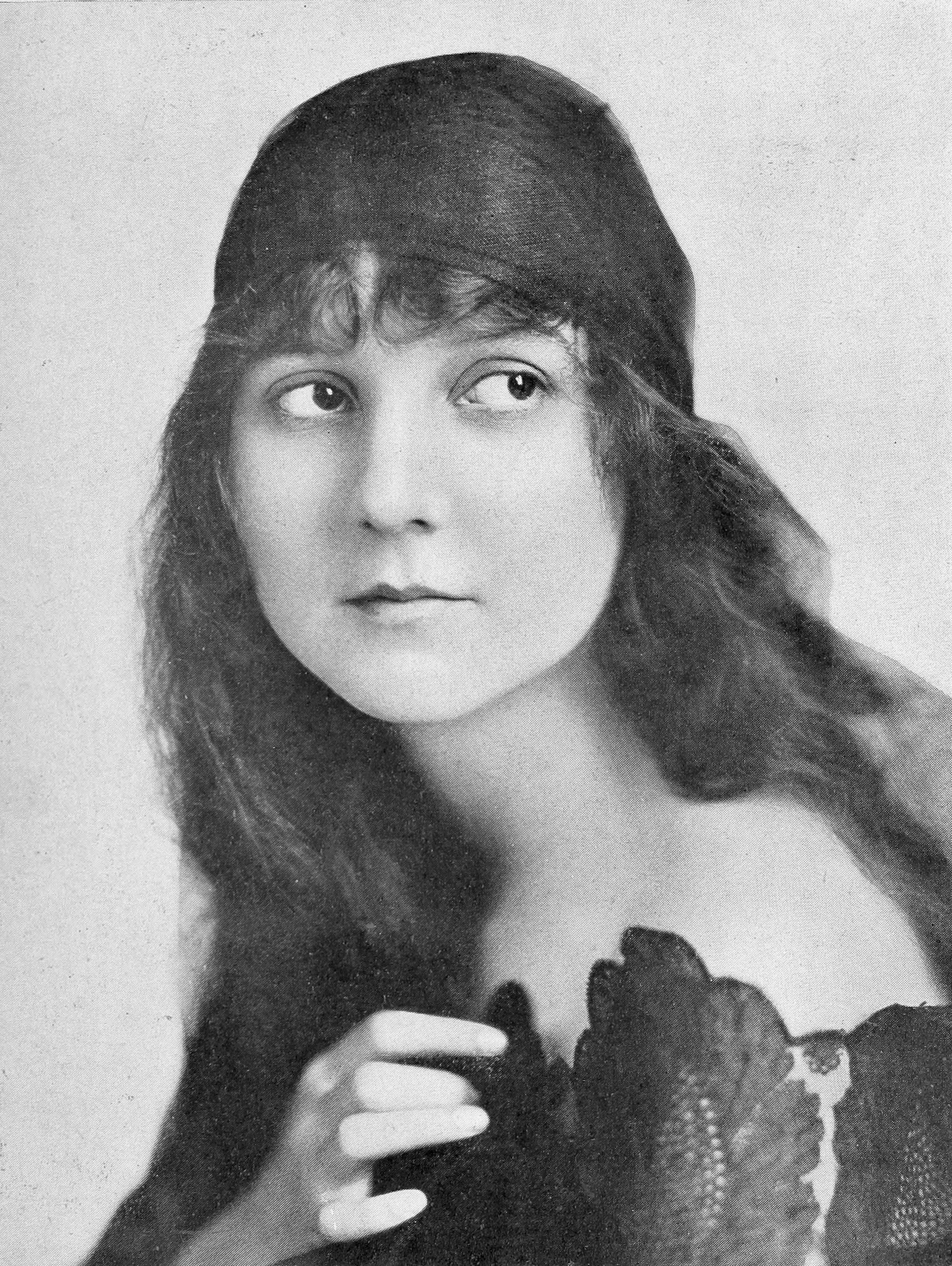 Publicity photo of Ann Little from Stars of the Photoplay "Anna Little is the tanned and stetsoned daughter of California who plays tennis, just as well as she rides horses. After considerable stage experience she joined Kay-Bee, and then Universal where she established herself with the public in her work opposite Rawlinson in 'The Black Box,' and as Calanthe in 'Damon and Pythias.' She is typically western in Jack Richardson's Mustang plays. Unmarried!"